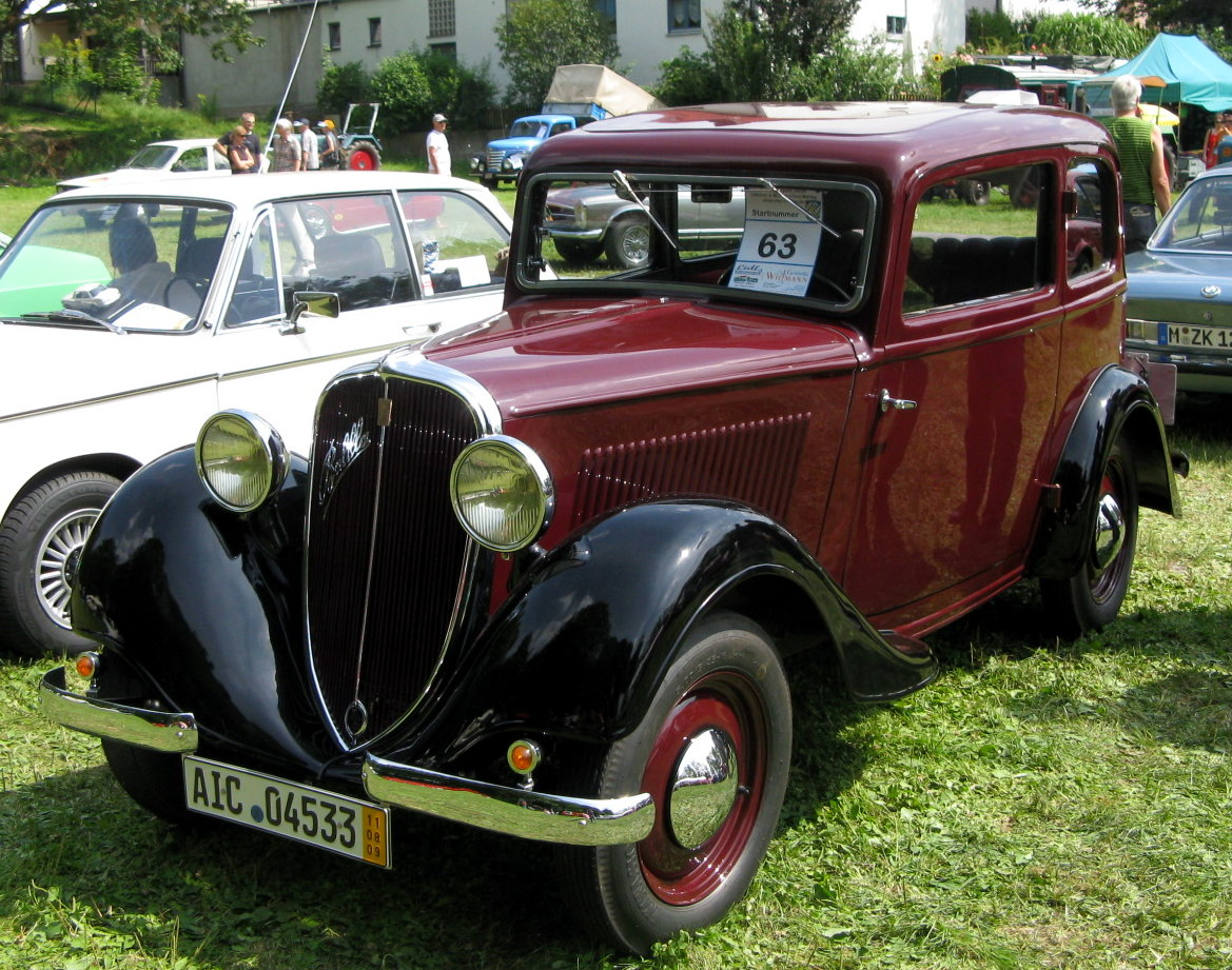 1934 NSU-Fiat 1000 (German version of Fiat 508 Ballila) at Vintage Vehicles Meeting in Mering (Bavaria)